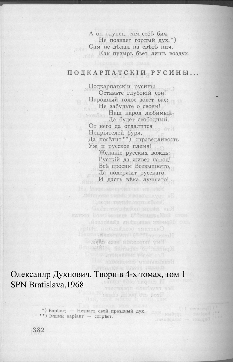 Text of the Rusyn anthem by Alexander Duchnovics